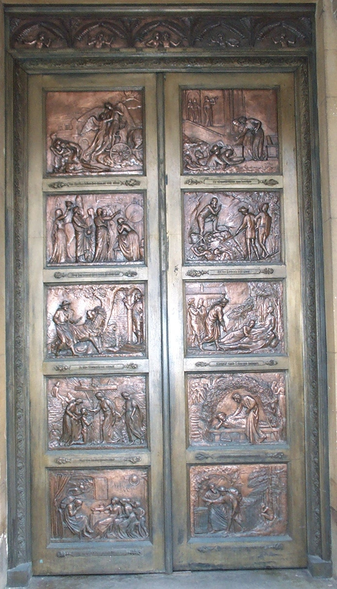 The doors of the Bunyan Meeting Church. Made of copper on Bronze by Frederick Thrupp (1812-1895). Modelled on the Baptistry doors at Florence, but showing scenes from John Bunyan's "Pilgrims Progress". Donated in 1876 by the Duke of Bedford.